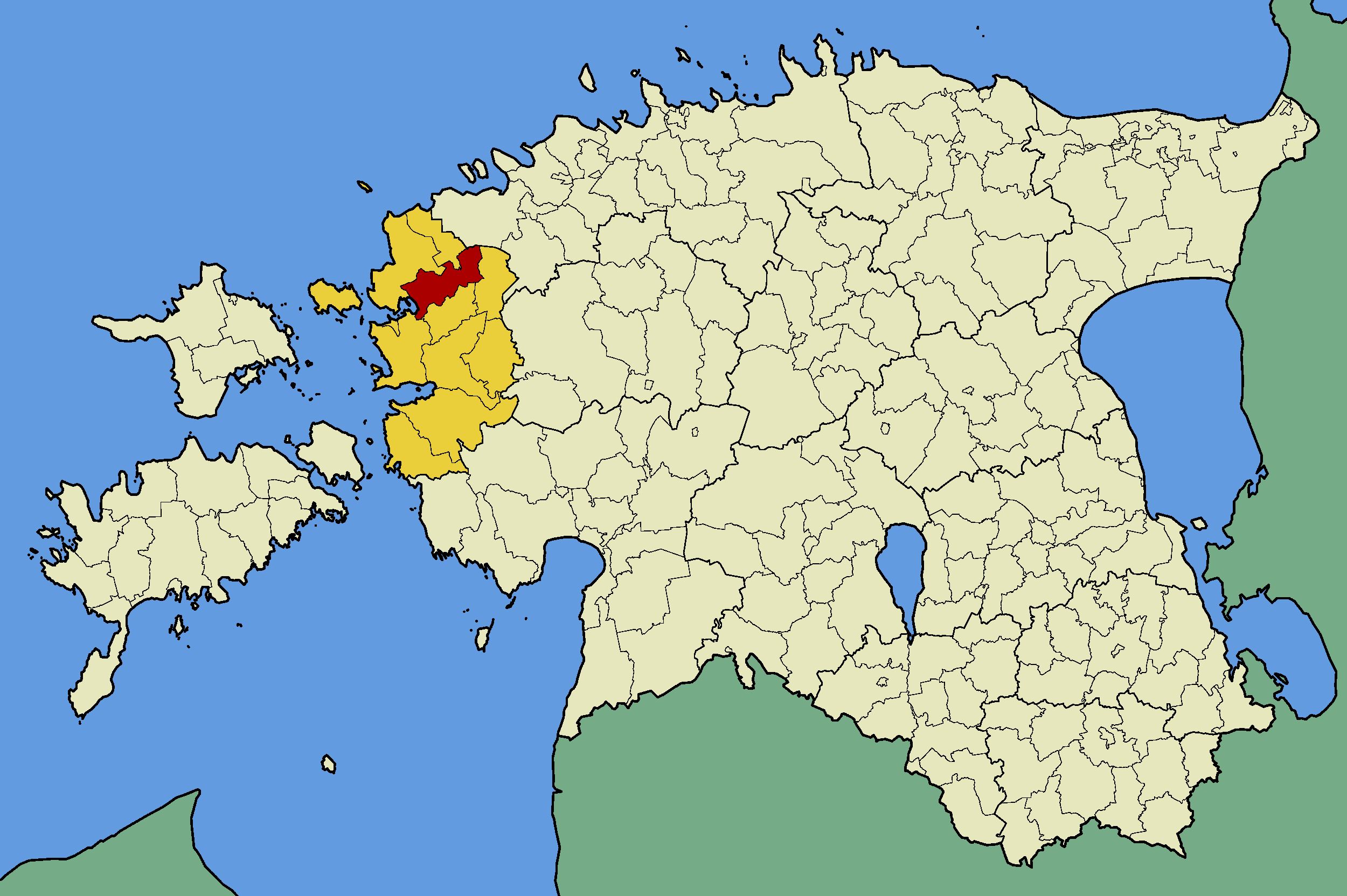 Map of Estonia with borders of municipalities (parishes). Lääne county and Oru municipality emphasized.